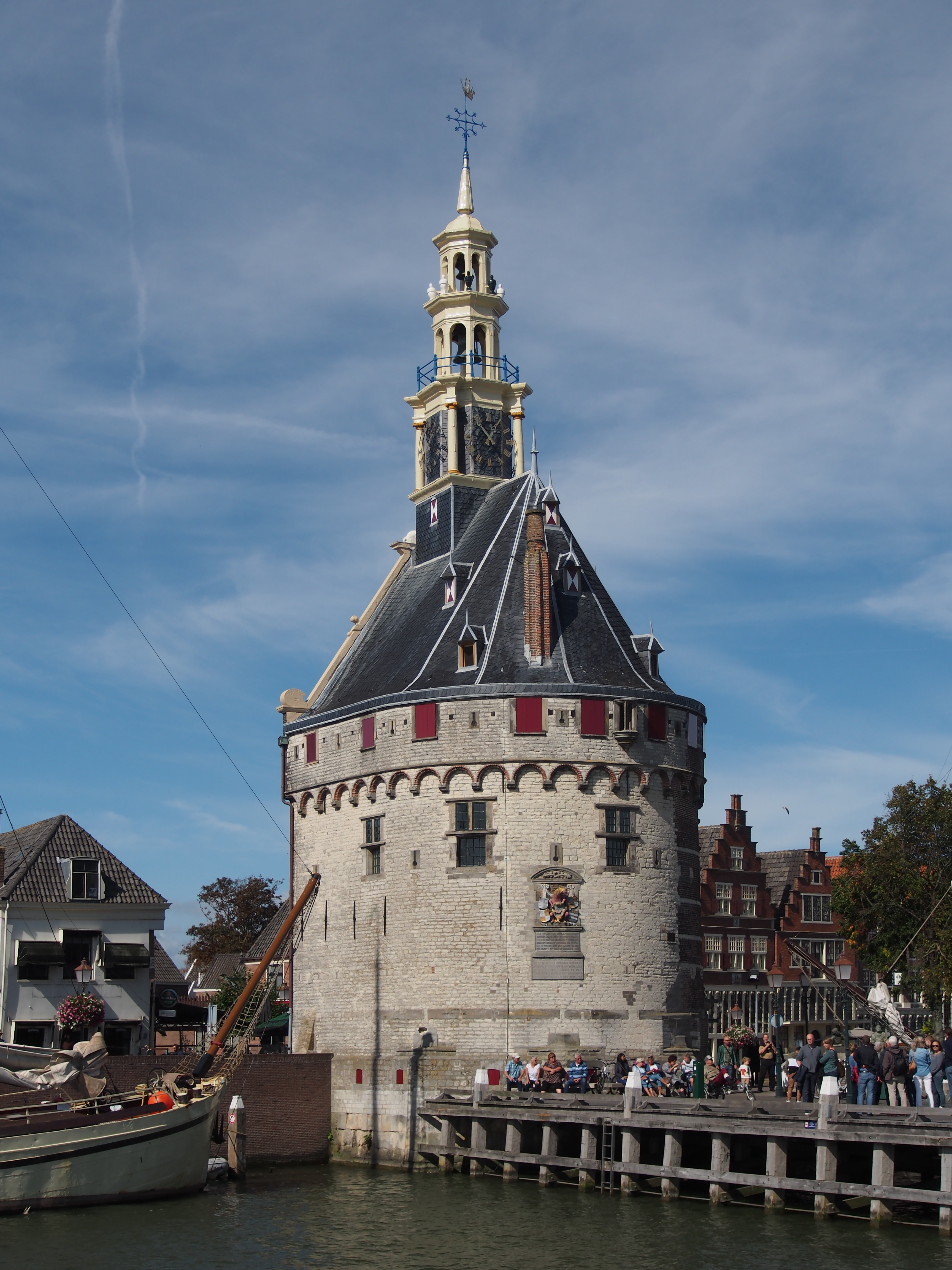 Photographed in Hoorn, the Netherlands.